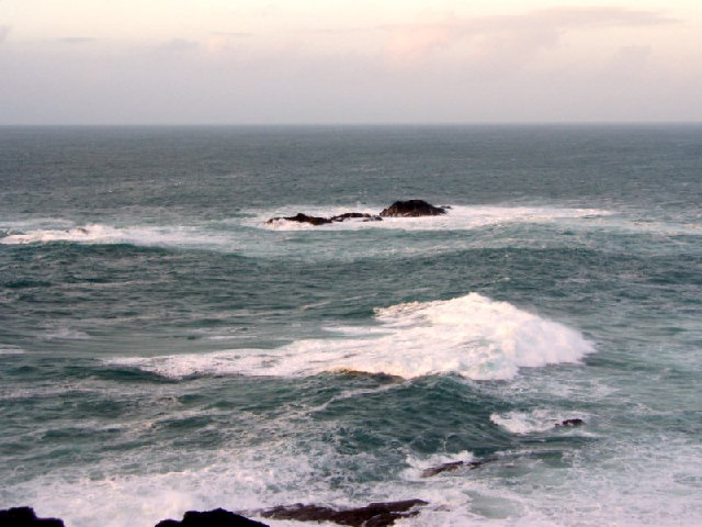 Three Stone Oar. These rocks called Three Stone Oar are the home of oyster catchers. Just off Portherras Cove they are prominent at low tide. Picture taken in a rising tide and stormy seas.